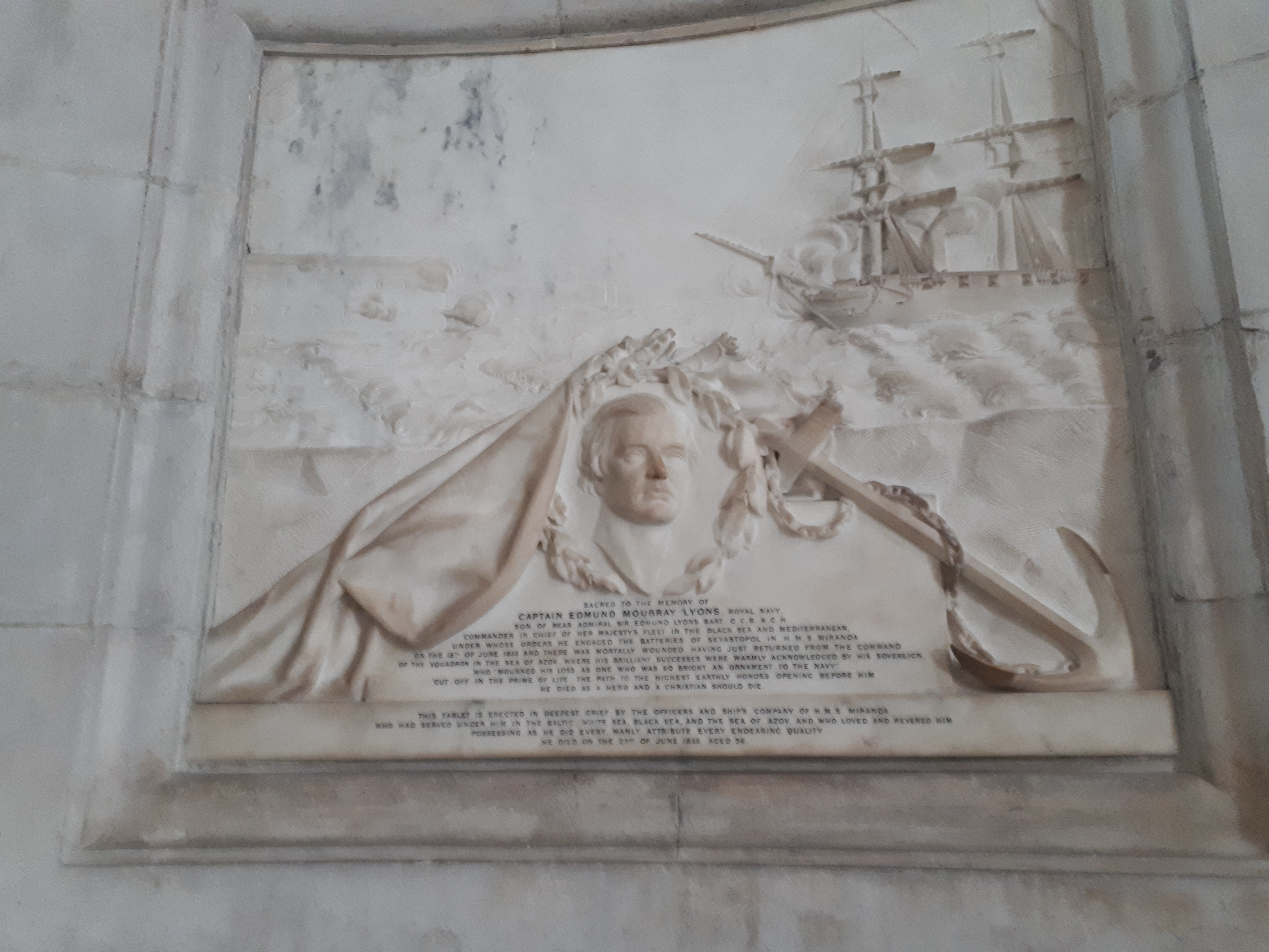 Memorial to Captain Edmund Moubray Lyons, by Matthew Noble (1817-1876), at the St. Paul's Cathedral, London